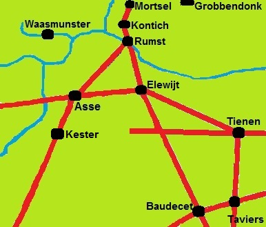 Heirbanen in de regio Elewijt-Asse